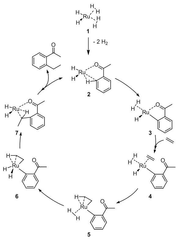 Proposed mechanism of the reaction catalyzed by [Ru(H)2(H2)2(PR3)2] between acetophenone and ethylene. Spectator ligands (PMe3) omitted for clarity.